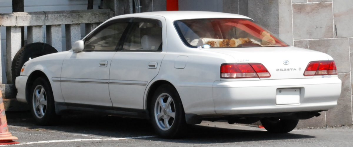 5th generation Toyota Cresta (1998/8 - 2001/7)